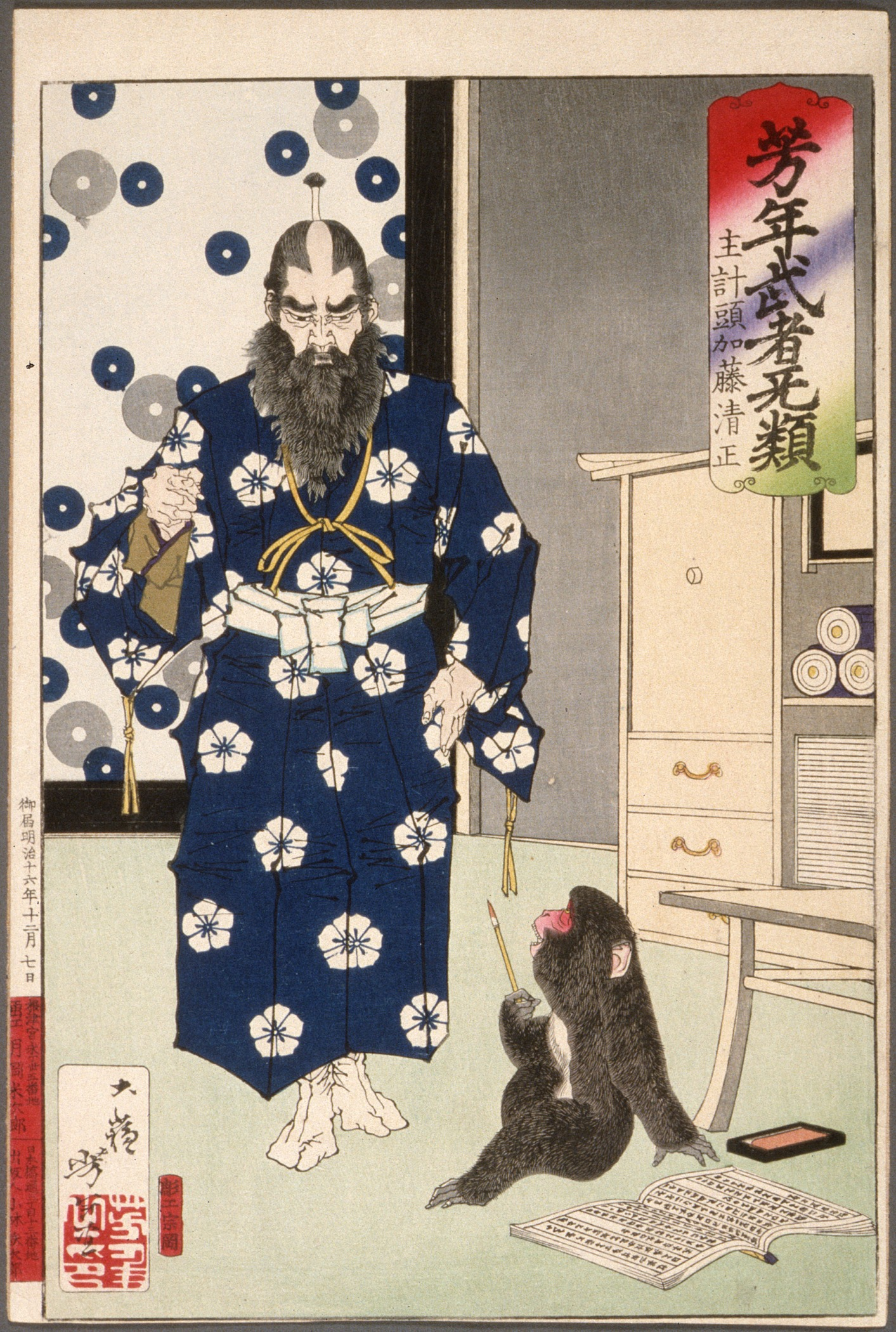 Japan, 12/1883 Series: Yoshitoshi's Warriors Trembling with Courage Prints; woodcuts Color woodblock print Herbert R. Cole Collection (M.84.31.456) Japanese Art 加藤清正の飼っている猿が清正を真似て論語の本に朱筆を入れたという場面を描いたもの